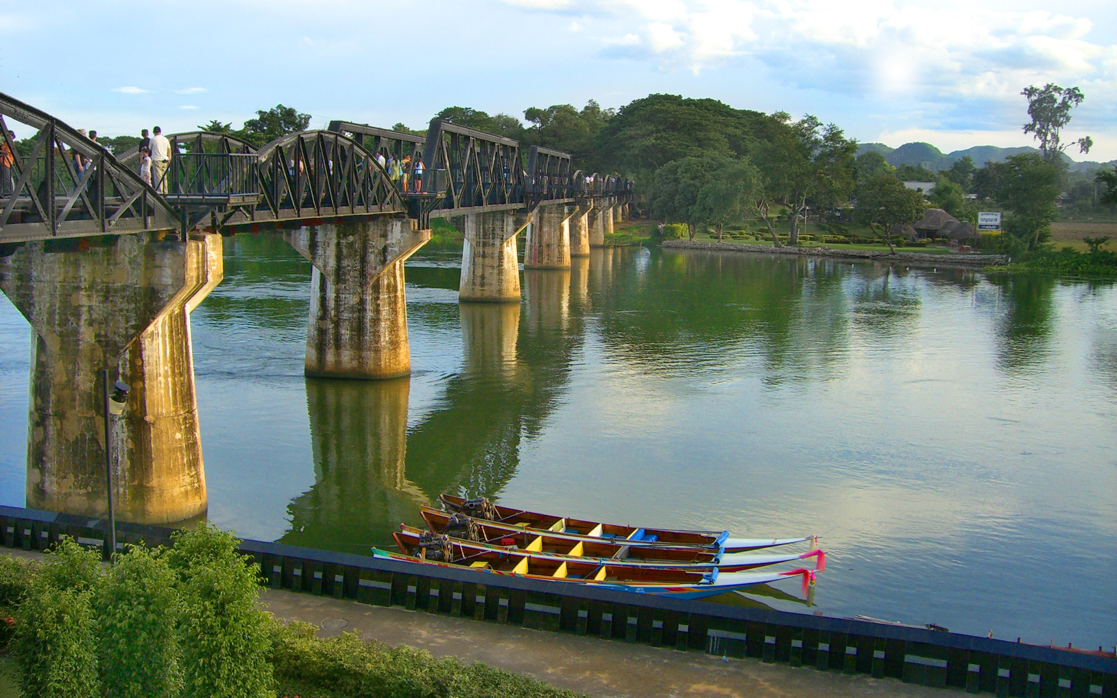 the bridge spanning the River Mae Klong on "Death Railway".